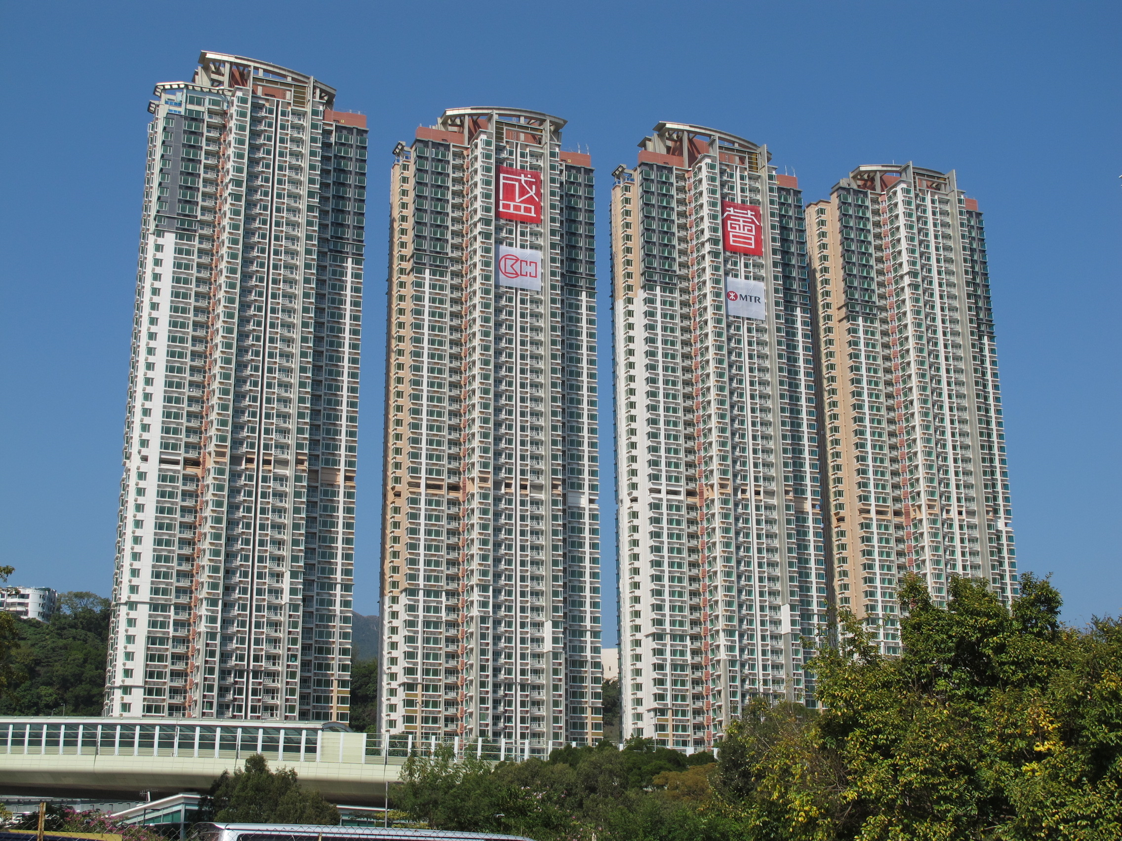 Festival City Phase 2 名城第二期 (盛薈)